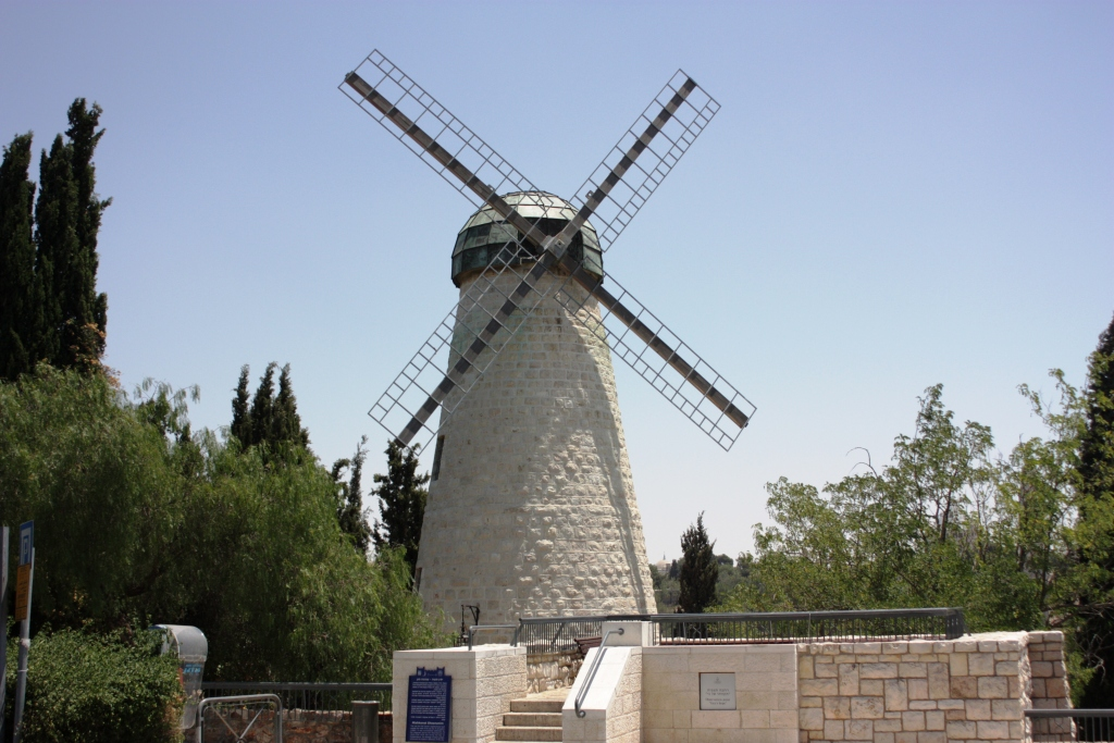 Windmill in Jerusalem, Geography of Israel